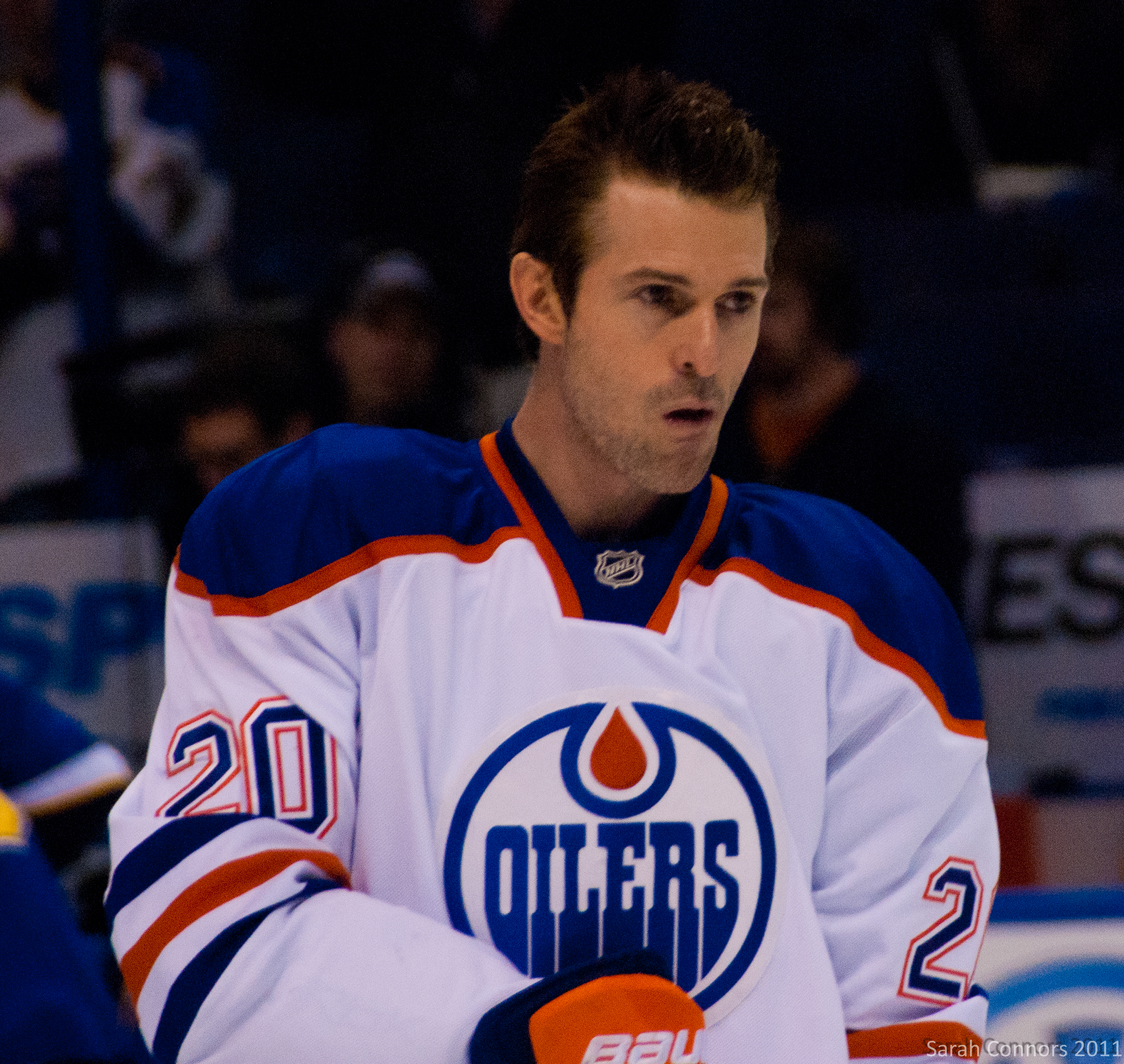 Eric Belanger with the Edmonton Oilers